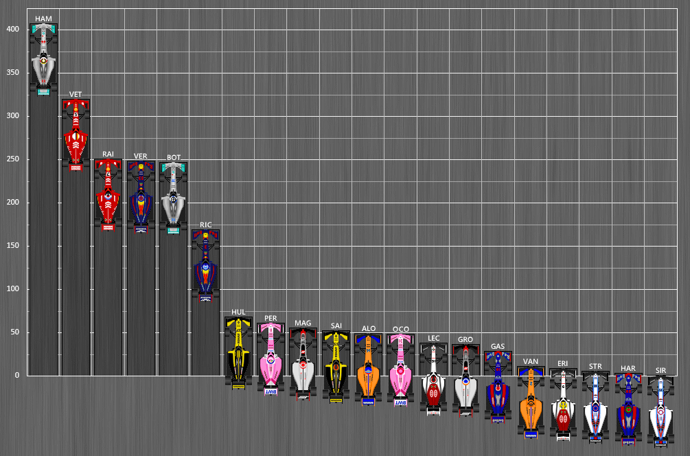 chart of final standings of the 2018 Formula One season